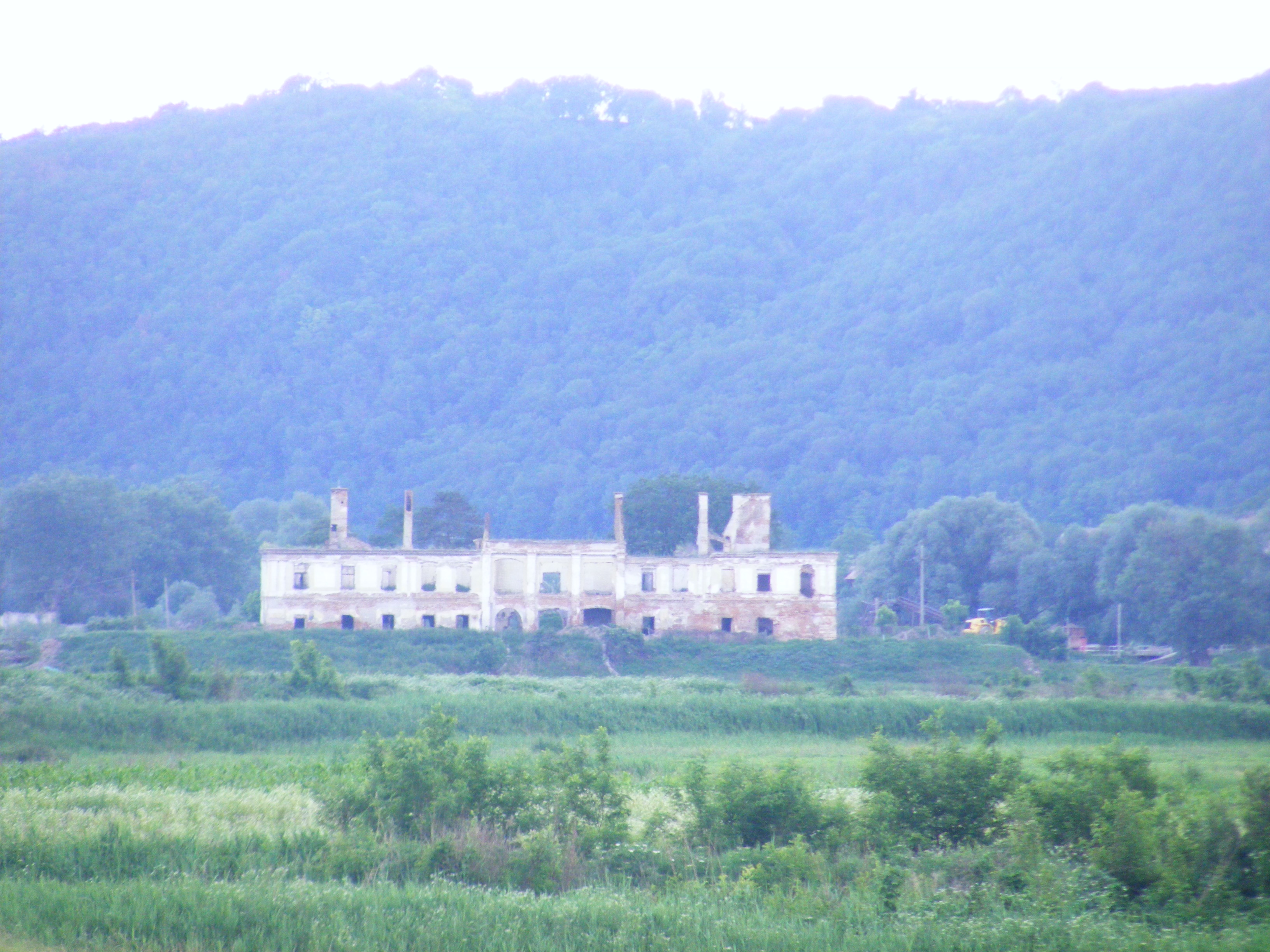 The castle's ruins in Kerelőszentpál (Sânpaul).